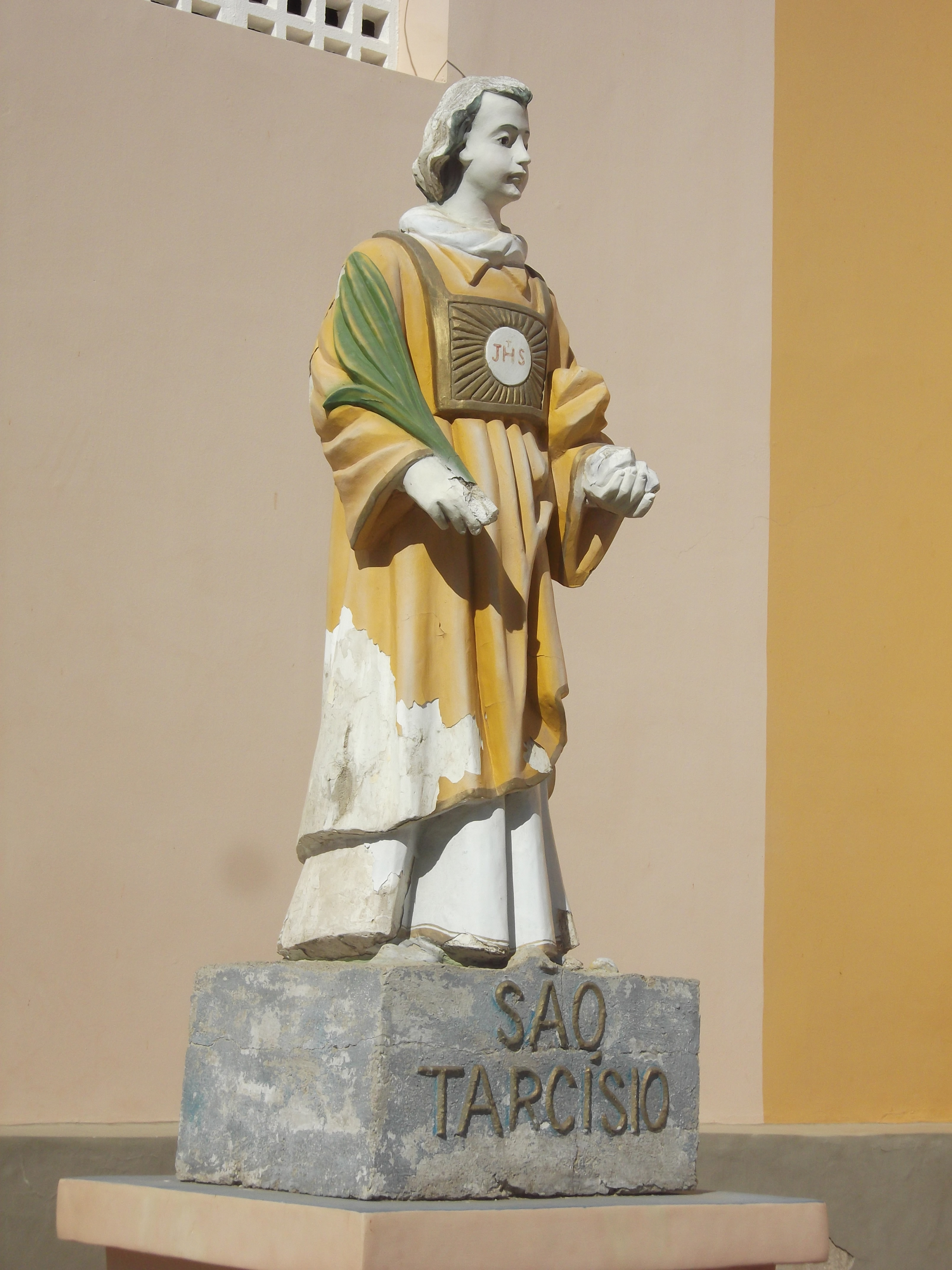 Saint Tarsicio Chapel, Canindé, Ceará, Brazil